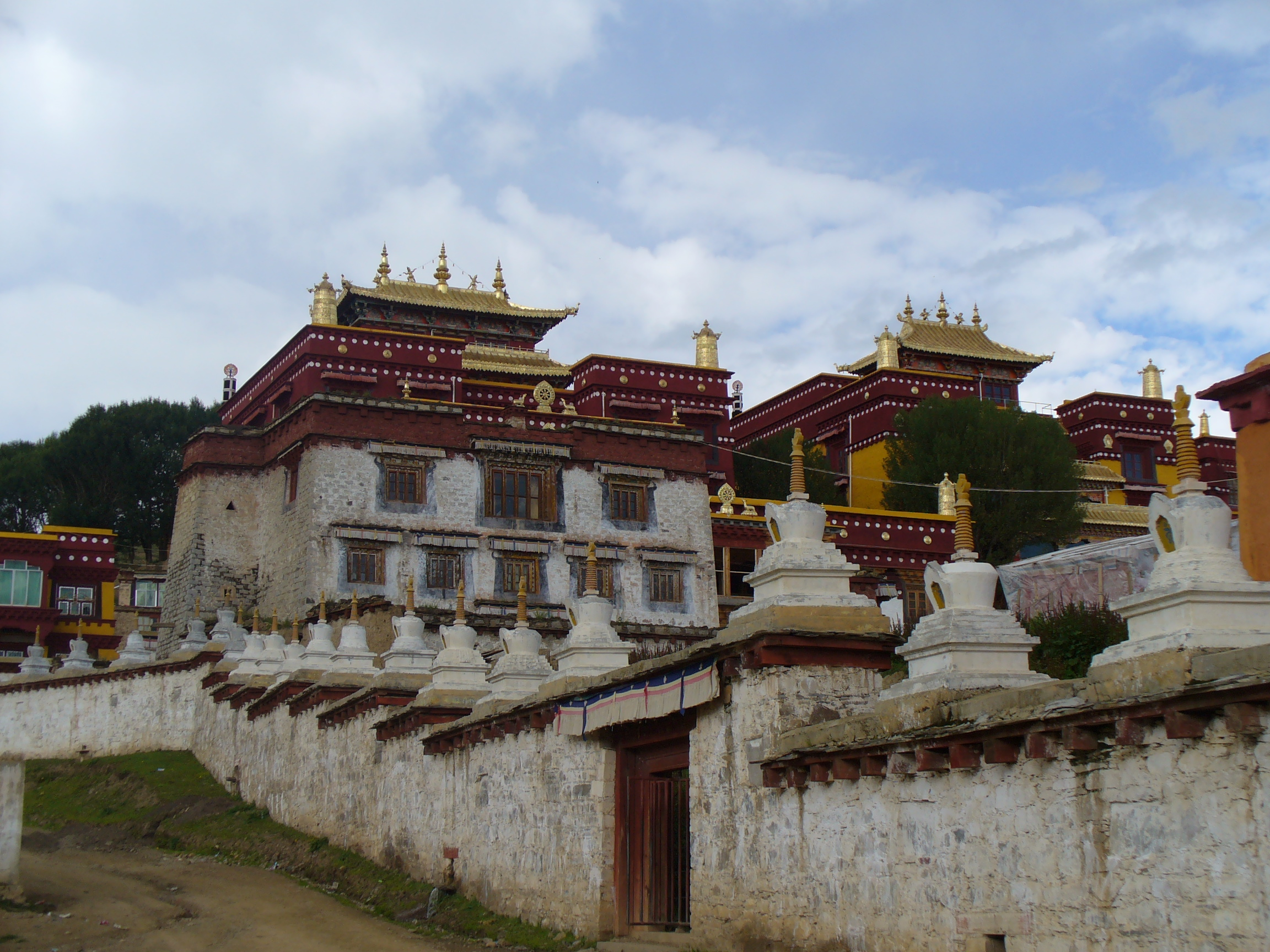 Litang Monastery — Tibetan Buddhist monastery in southwestern China.